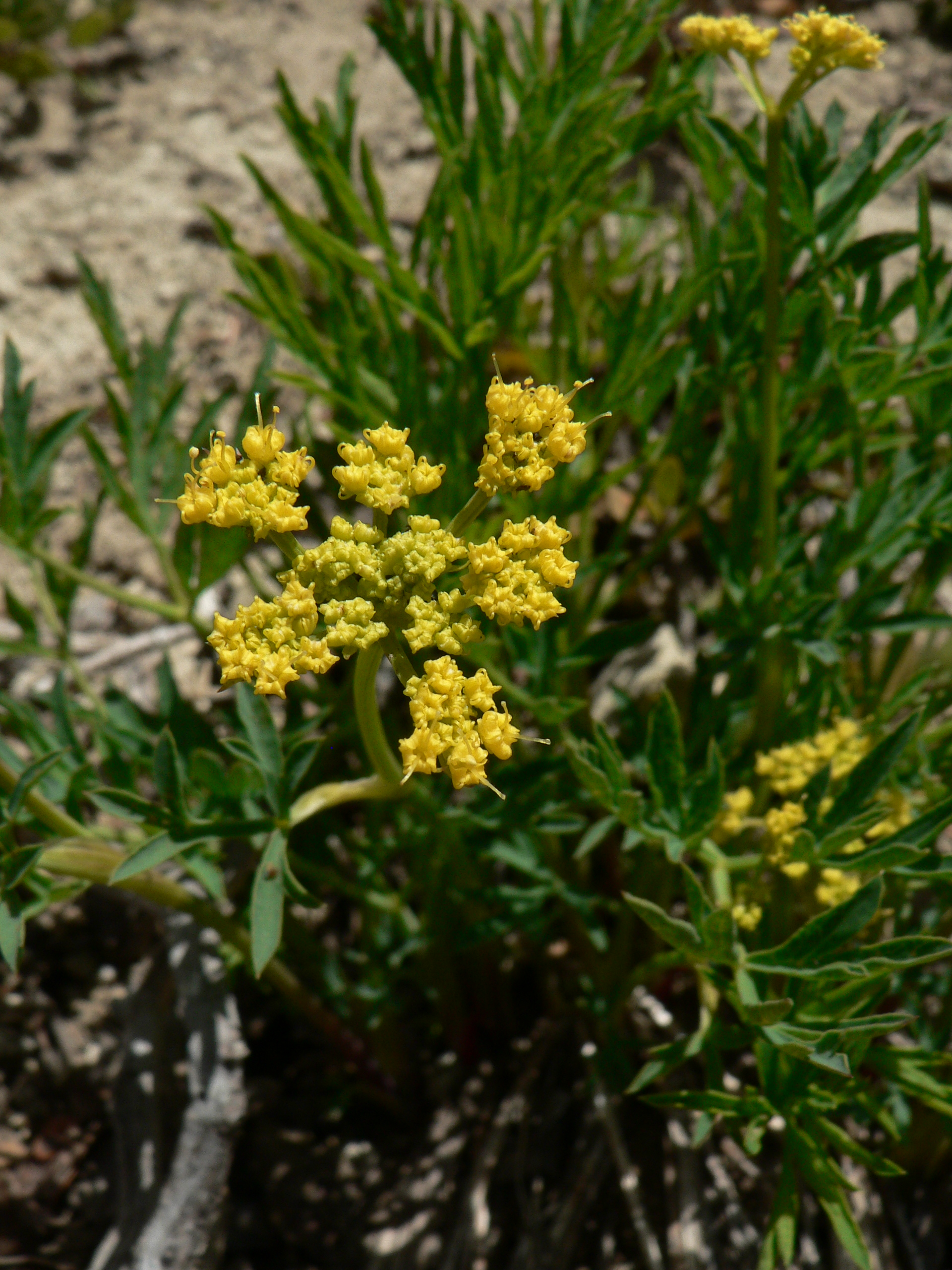 Brandegee's Desert-parsley